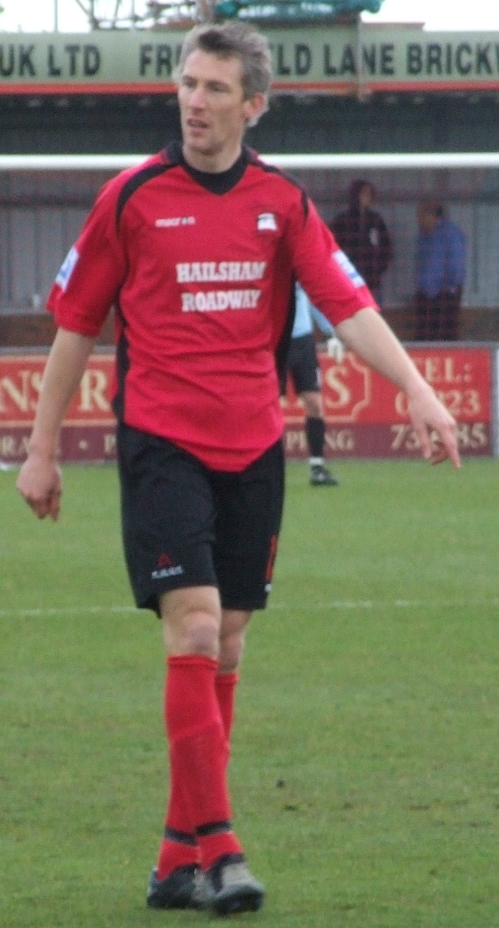 Jay Lovett playing for Eastbourne Borough football club